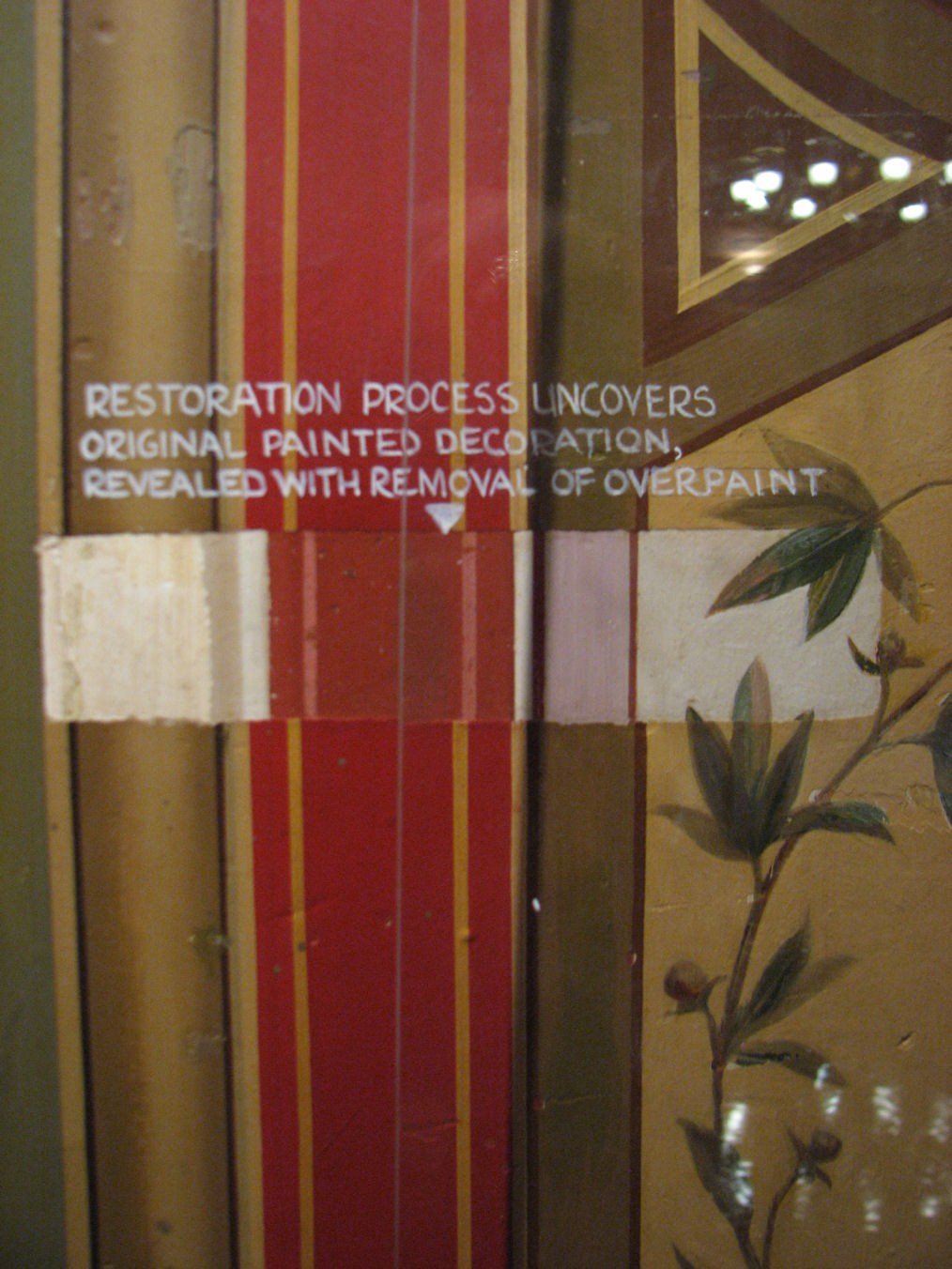 Photograph of detail from display on restoration of Brumidi Corridors in the United States Capitol, taken by Rebel At|, on June 23rd, 2007.